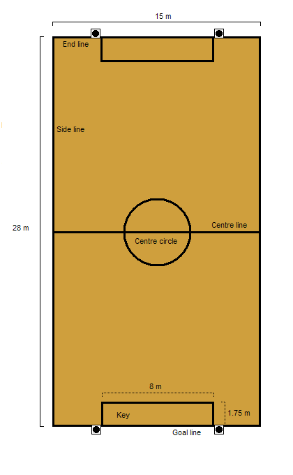 Diagram of a wheelchair rugby court